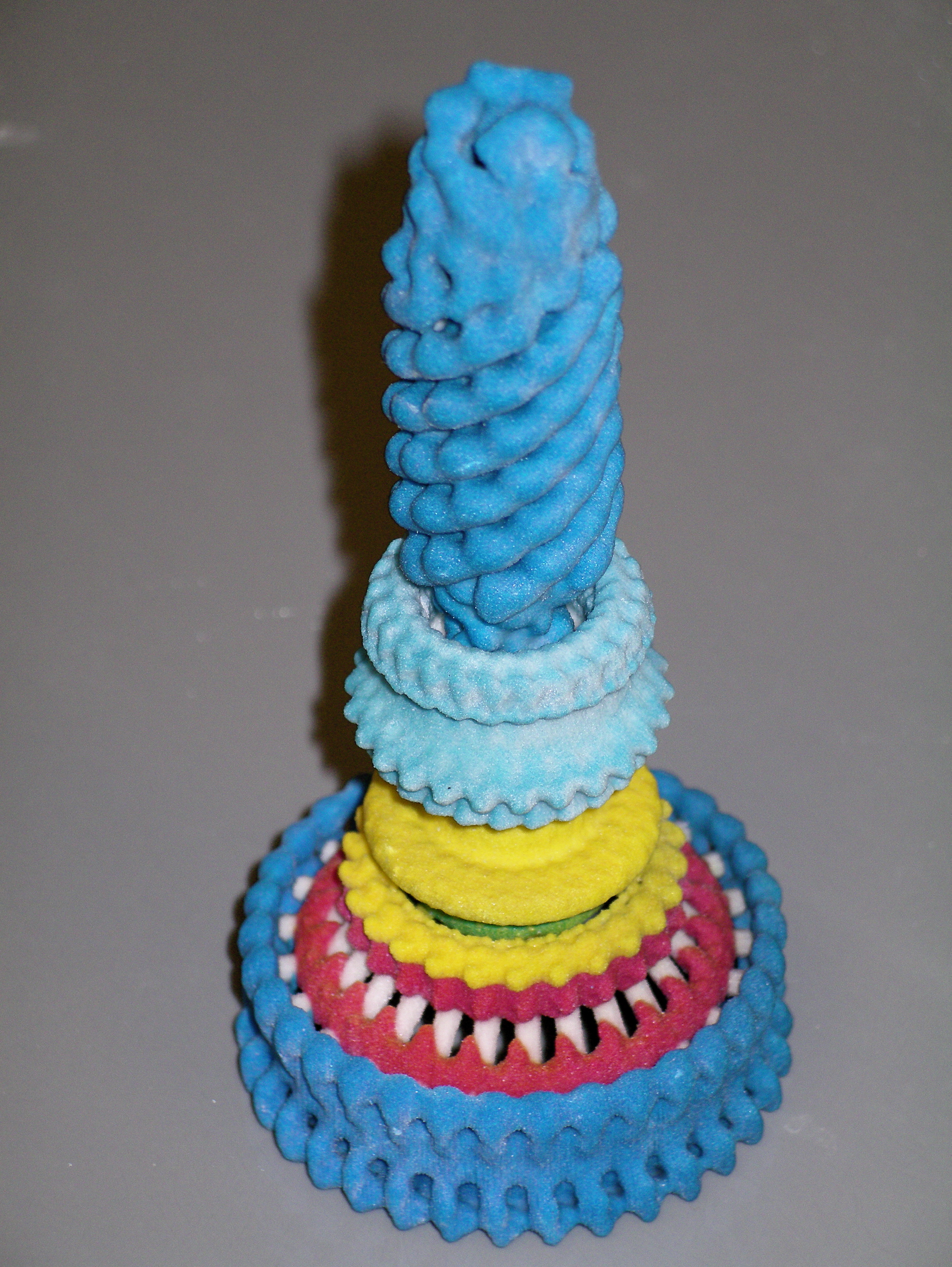 This is a physical model of a bacterial flagellum. It was imaged and modeled at Brandeis University in the DeRosier lab and printed at the University of Wisconsin - Madison. It was fabricated on a ZCorp Z406 printer from a VRML generated at Brandeis. This is from a species of Salmonella. "Starting from the top: in blue, axial/helical components, including cap, hook-filament junction, hook (or universal joint), and rod (or drive shaft); in purple [light blue in this model], L and P rings (or bushing); in yellow, proposed location of FliF, a transmembrane protein that couples the motor to the drive shaft; in red, proposed location of FliG, one of the motor/switch proteins; in blue, proposed location of FliM and FliN, two other motor/switch proteins" (as quoted from the legend to the figure on the cover of Journal of Bacteriology, October 2006). Way too much detail, I know. I just print the physical models. For the OTHER comments, I get that response a lot; mainly, oddly enough, by women who usually start giggling.